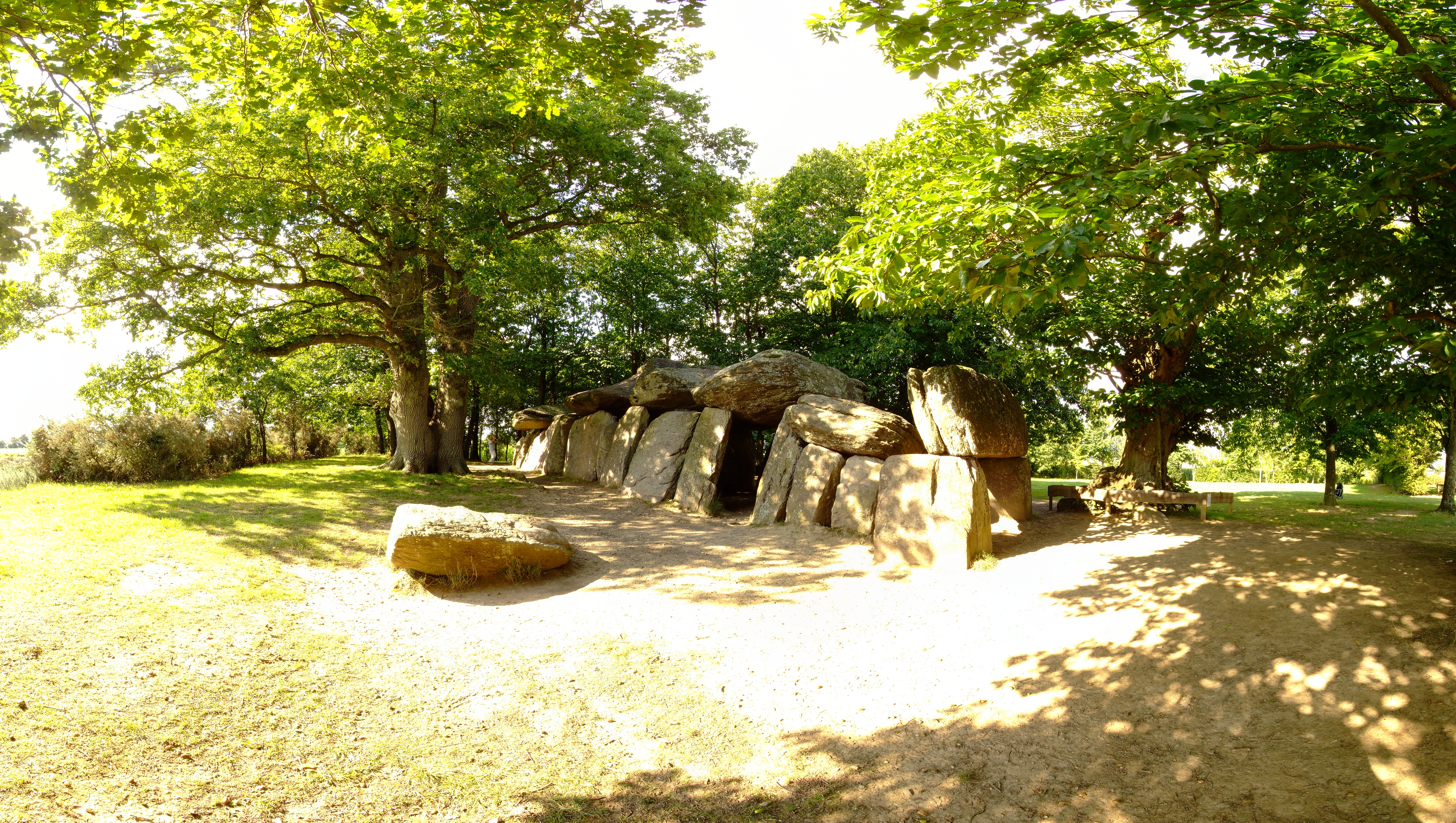 La Roche-aux-Fées, village of Essé, Ille-et-Vilaine, Brittany, France. It's a dolmen (gallery grave), the biggest in France, built near 2500 ~ 2000 B.C.